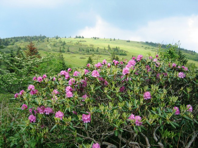 Rhododendrons at Roan Mountain